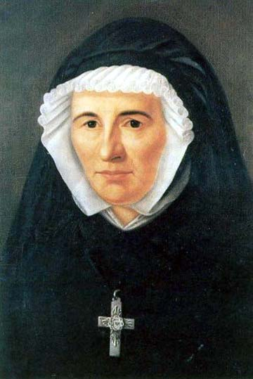 The Foundress of the Congregation of the Religious of Jesus and Mary.